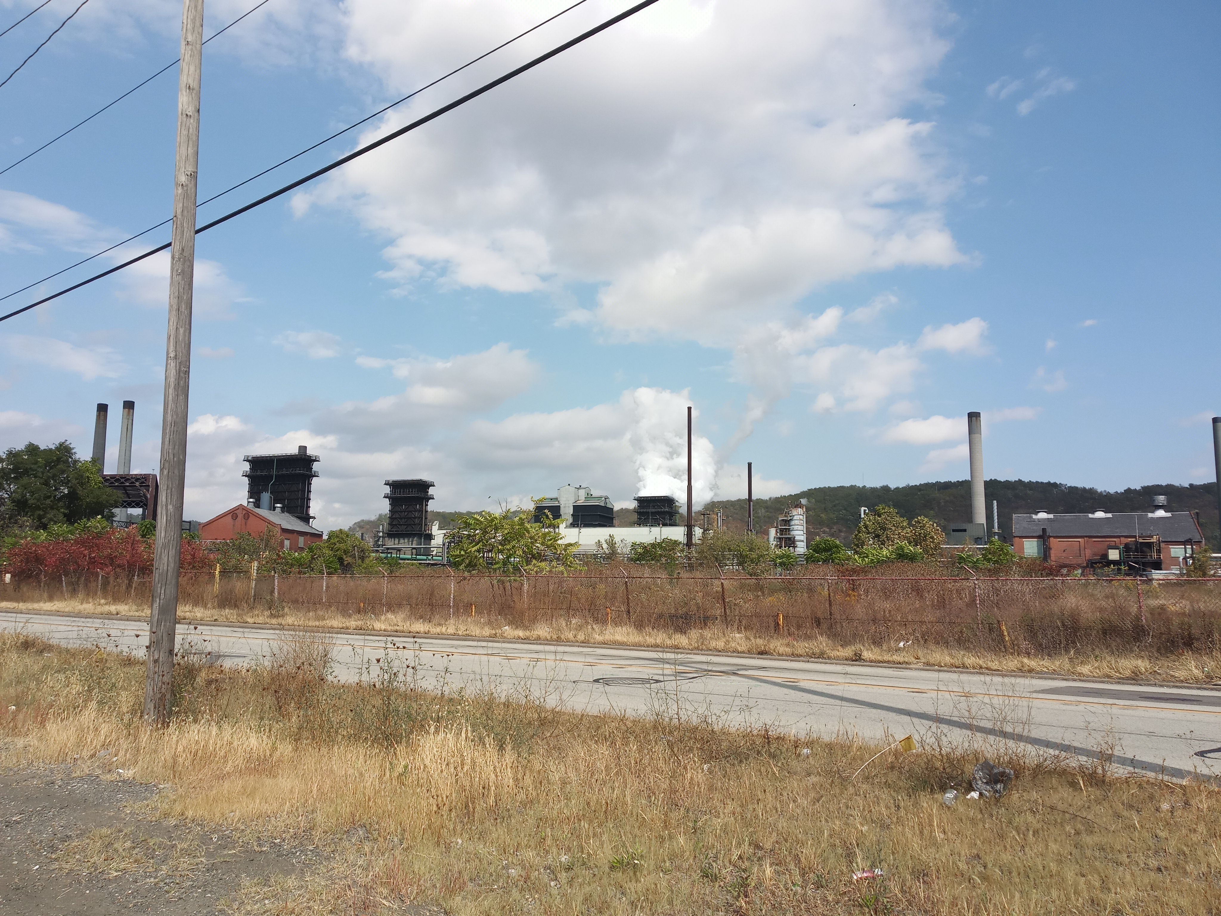 View of Coke Ovens at the Clairton Works, North America's largest coking facility